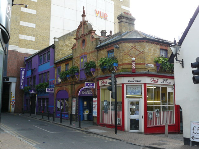 Shops in Middle Street, Croydon On the corner of Middle Street and Bell Hill stands "Tony", the hairdressing shop which has had my custom in recent years. Next door is "Beanos", the world-famous second-hand record store, which once had the biggest collection of records in Europe. Sadly, this store will shortly be closing, but will be "re-born" as an indoor market.